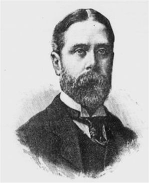 Image of Arthur Goring Thomas scanned from The Musical Herald, 1 April 1892, p. 117